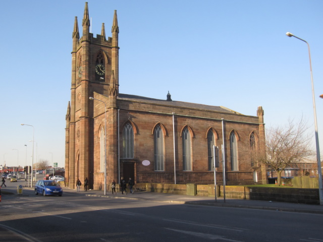 St James's Church, Latchford. Looking across Wilderspool Causeway towards the church of St James. There is a bench mark on the pillar this side of the west door 1743802